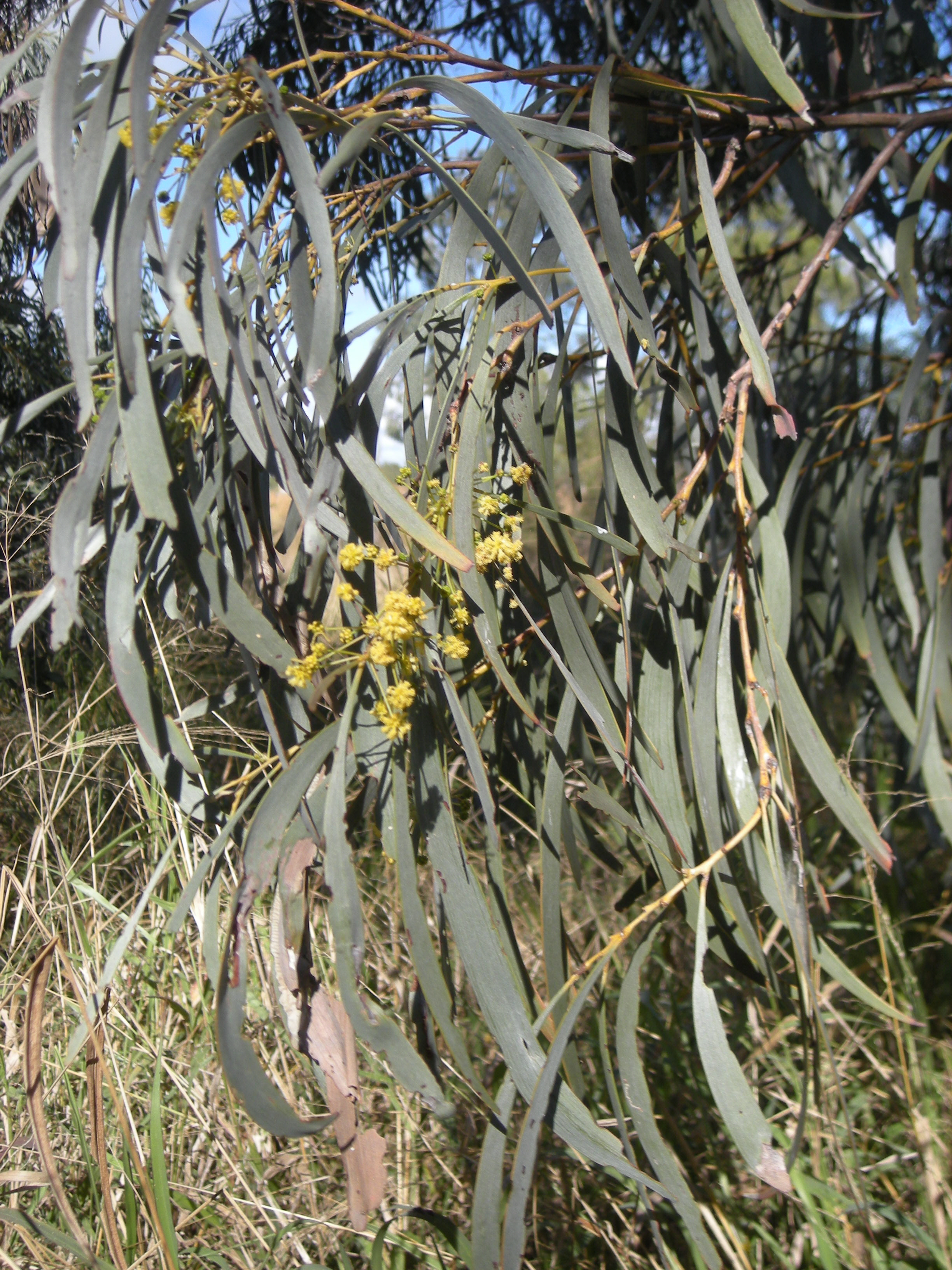 Blossom and leaves of brigalow, coastal central Queensland